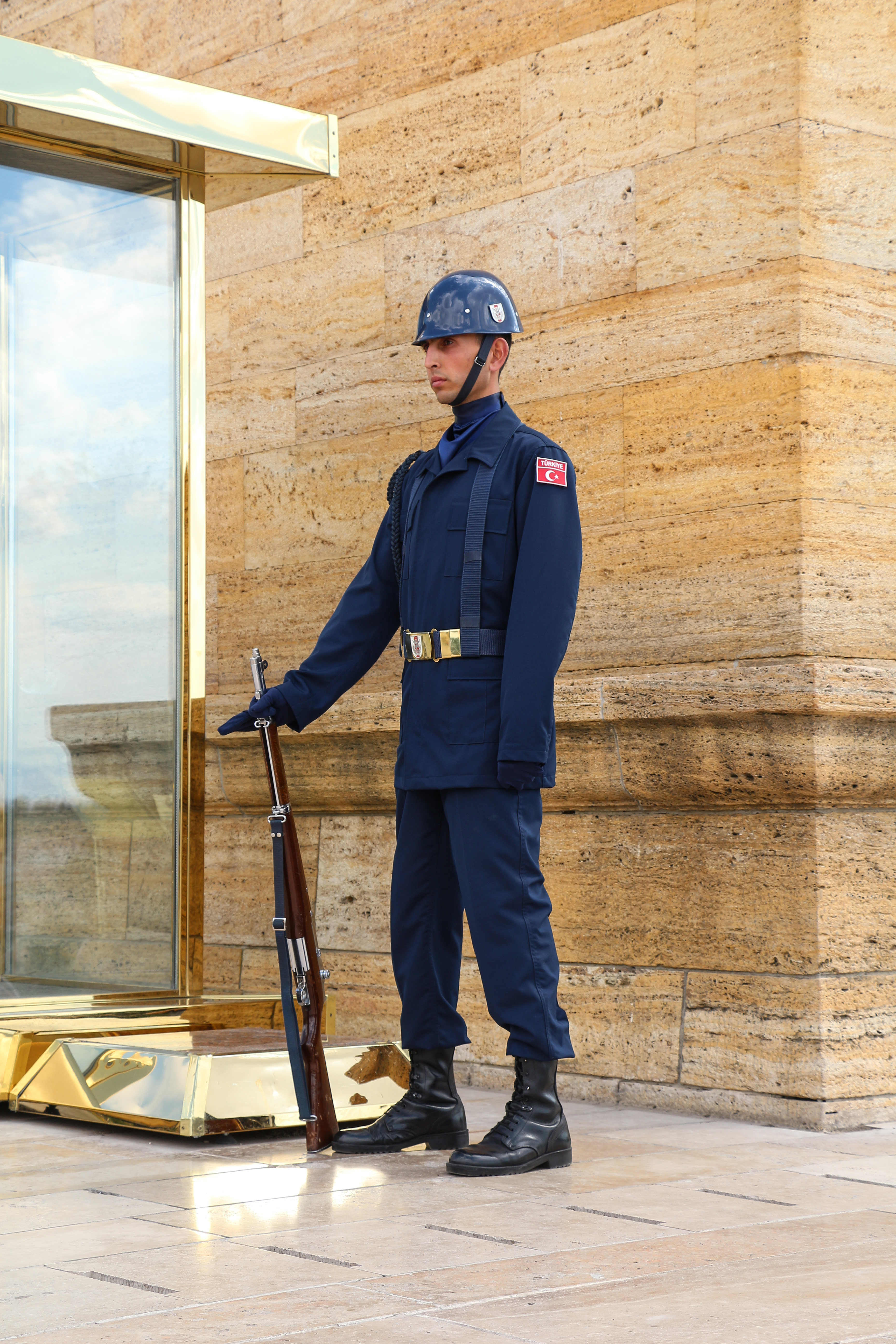 A ceremonial guard at the Mausoleum of Atatürk (Anıtkabir), Ankara